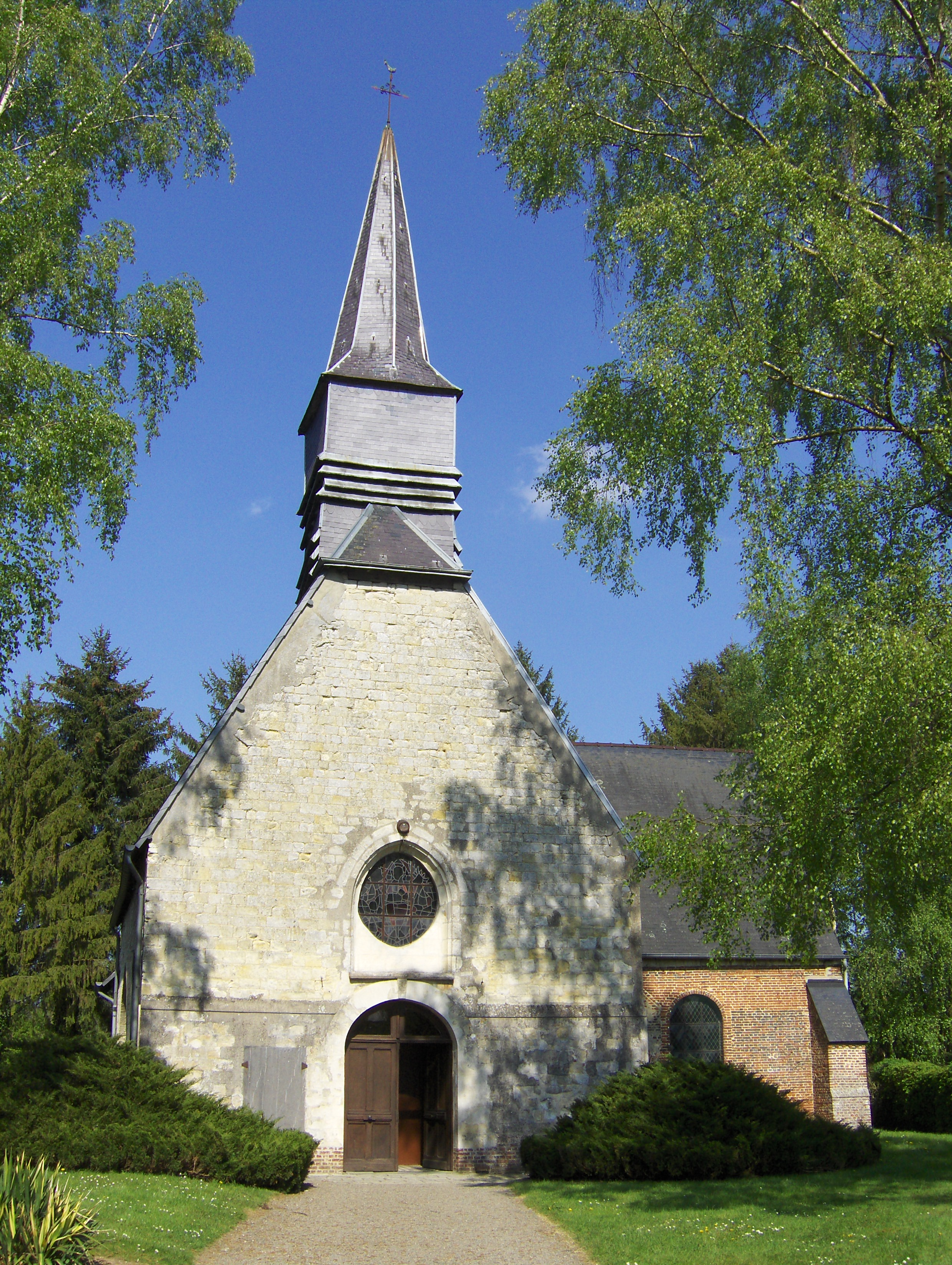 Church of Hannapes on April 18 2011.